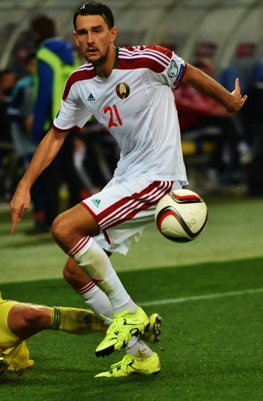 Egor Filipenko